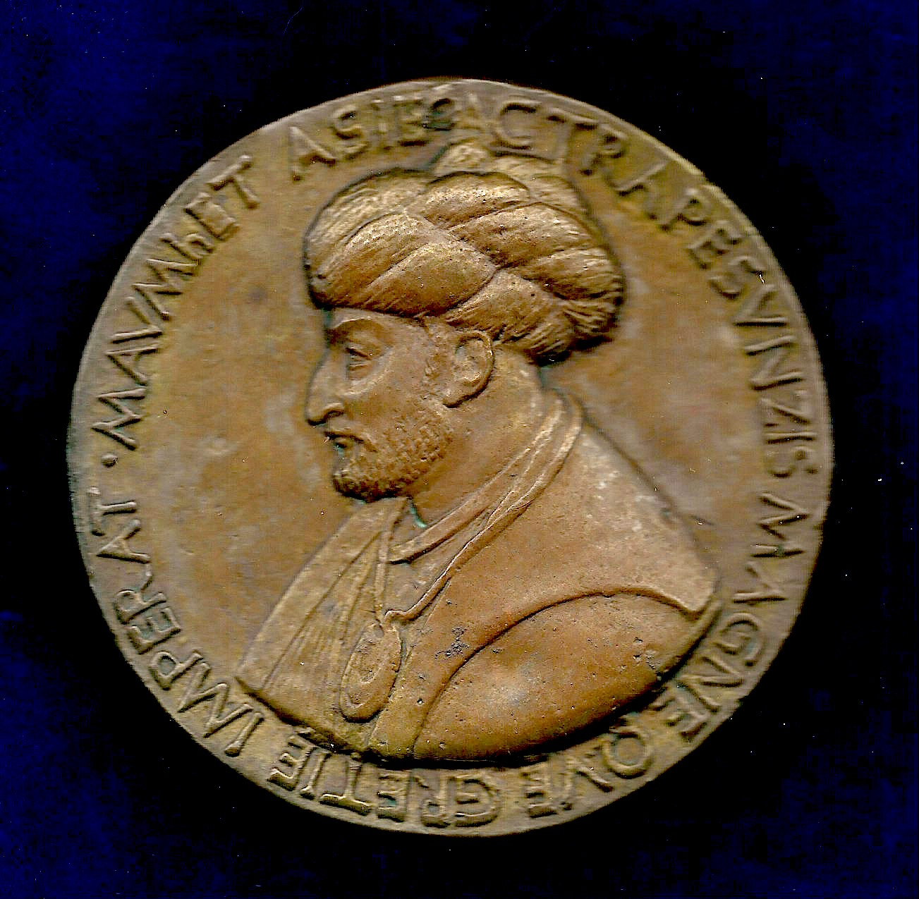 ND medal (about 1480) d. = 91 mm. Mehmed II the Conqueror, 1432 Edirne, Edirne Province, Turkey - 1481 Hünkârçayırı, near Gebze, Kocaeli Province, Turkey. Portrait l., around: "· MAVMHET ASSIE ACTRAPESVNZIS MAGNE QVE GRETIE IMPERAT ·". / uniface electrotype medallion. Forrer I, p. 177. Medallist: Bertoldo di Giovanni, after 1420 Poggio a Caiano - 1491 Florence, Italy Condition: EXTREMELY FINE, no hidden faults.